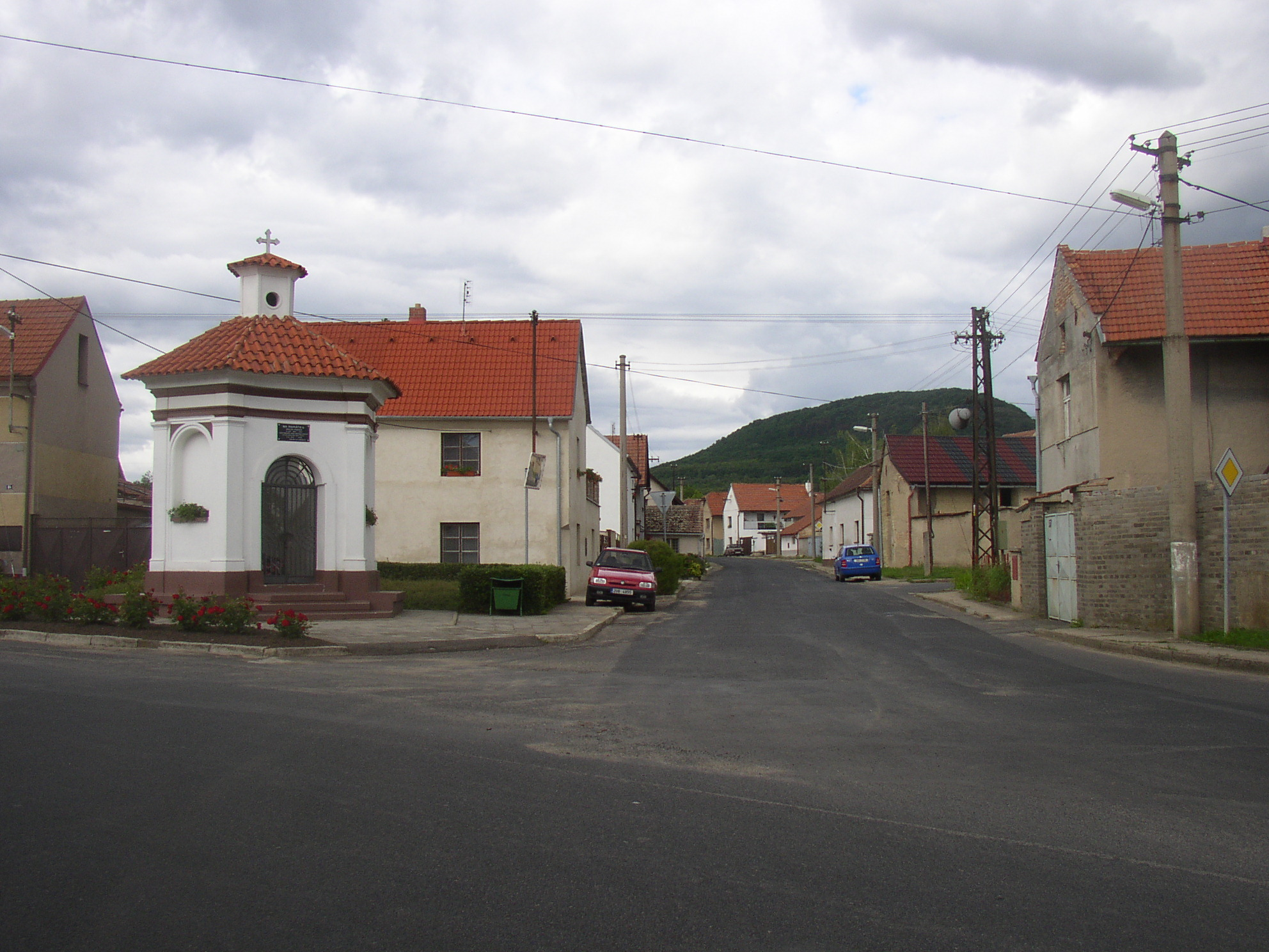 Vražkov, Litoměřice District, Czech Republic. Chapel at crossroads in centre of the villagen and road in NNE direction to Krabčice, in the background the Říp Mountain.